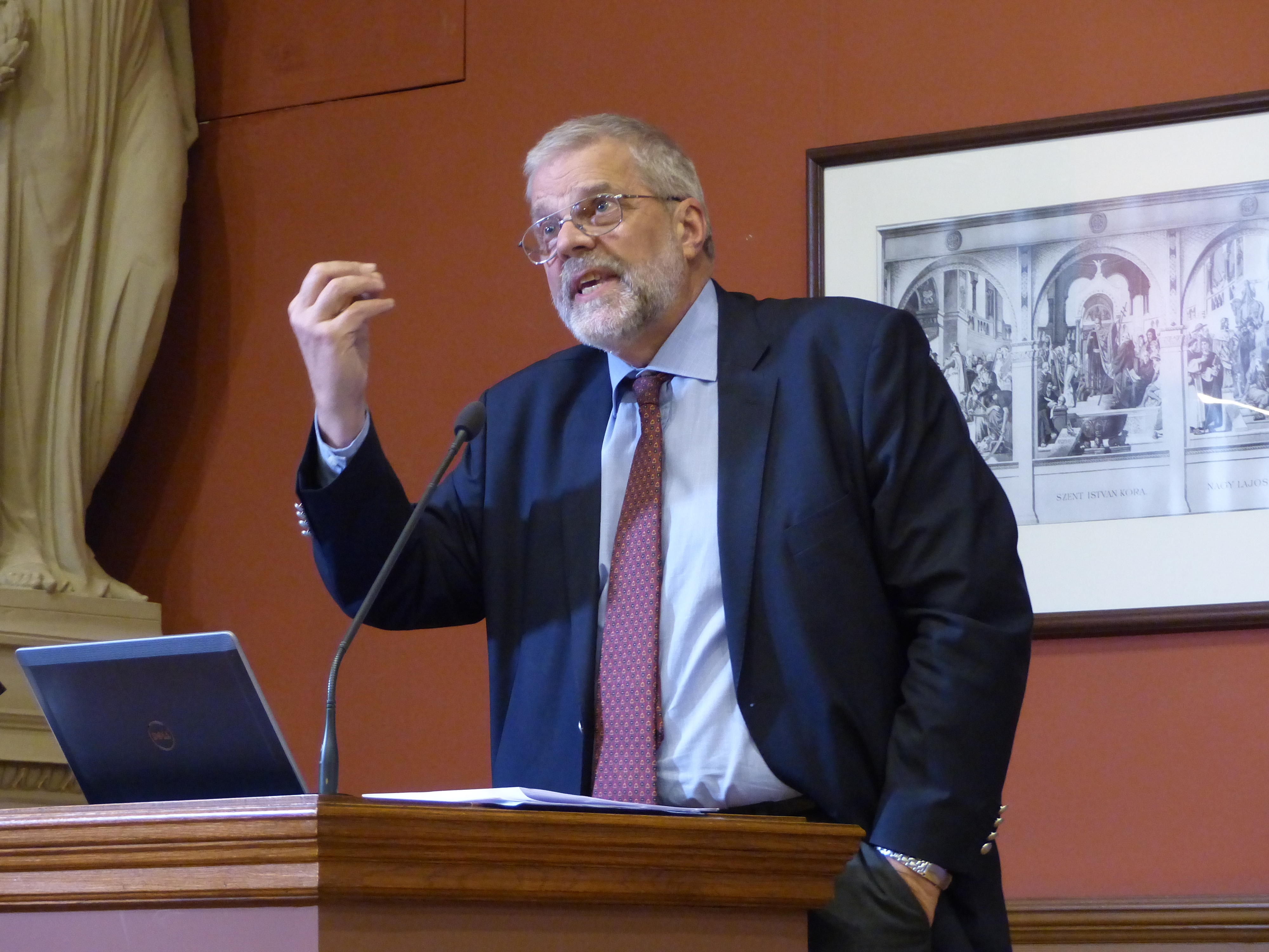 Paul Dembinski. Taken on the 23rd of February, 2017. Hungarian Academy of Sciences, Central Europe. Paul Dembinski and Stefano Zamagni discussed questions on Civil economics, Antonio Genovesi.